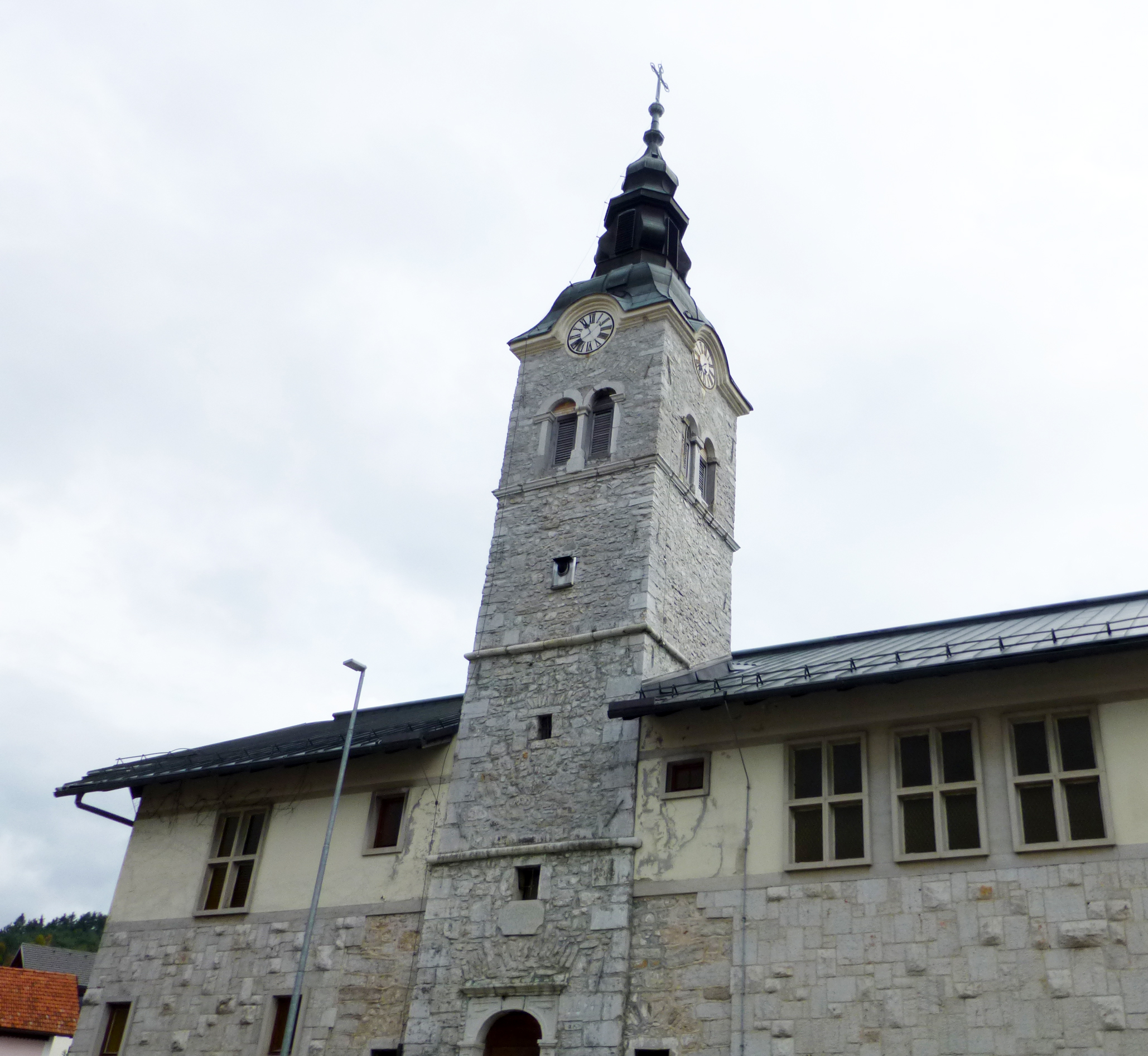 Baroque church tower in RAKEK, near Cerknica.